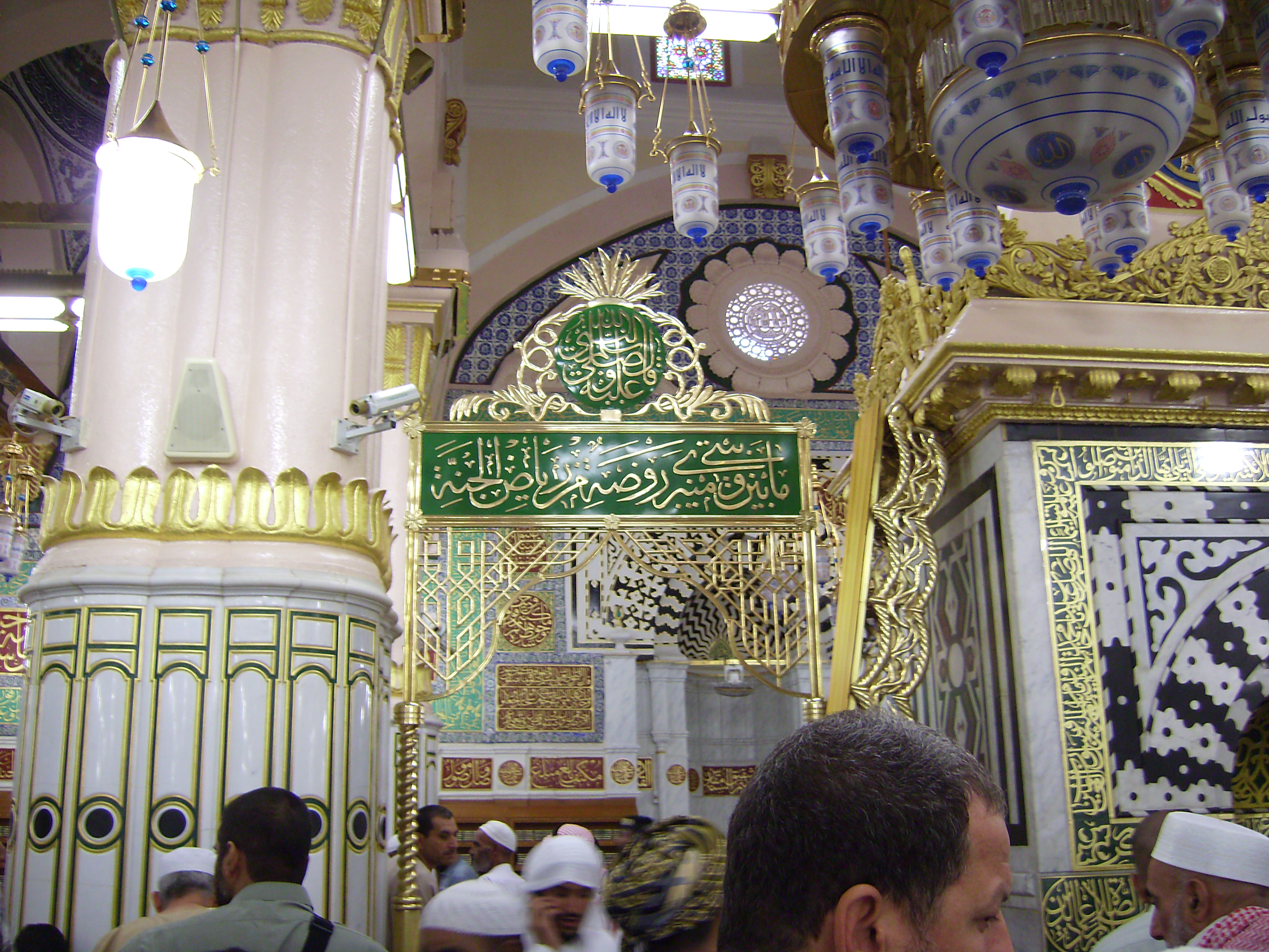 Al-Rawda in Al-Masjid Al-Nabawi